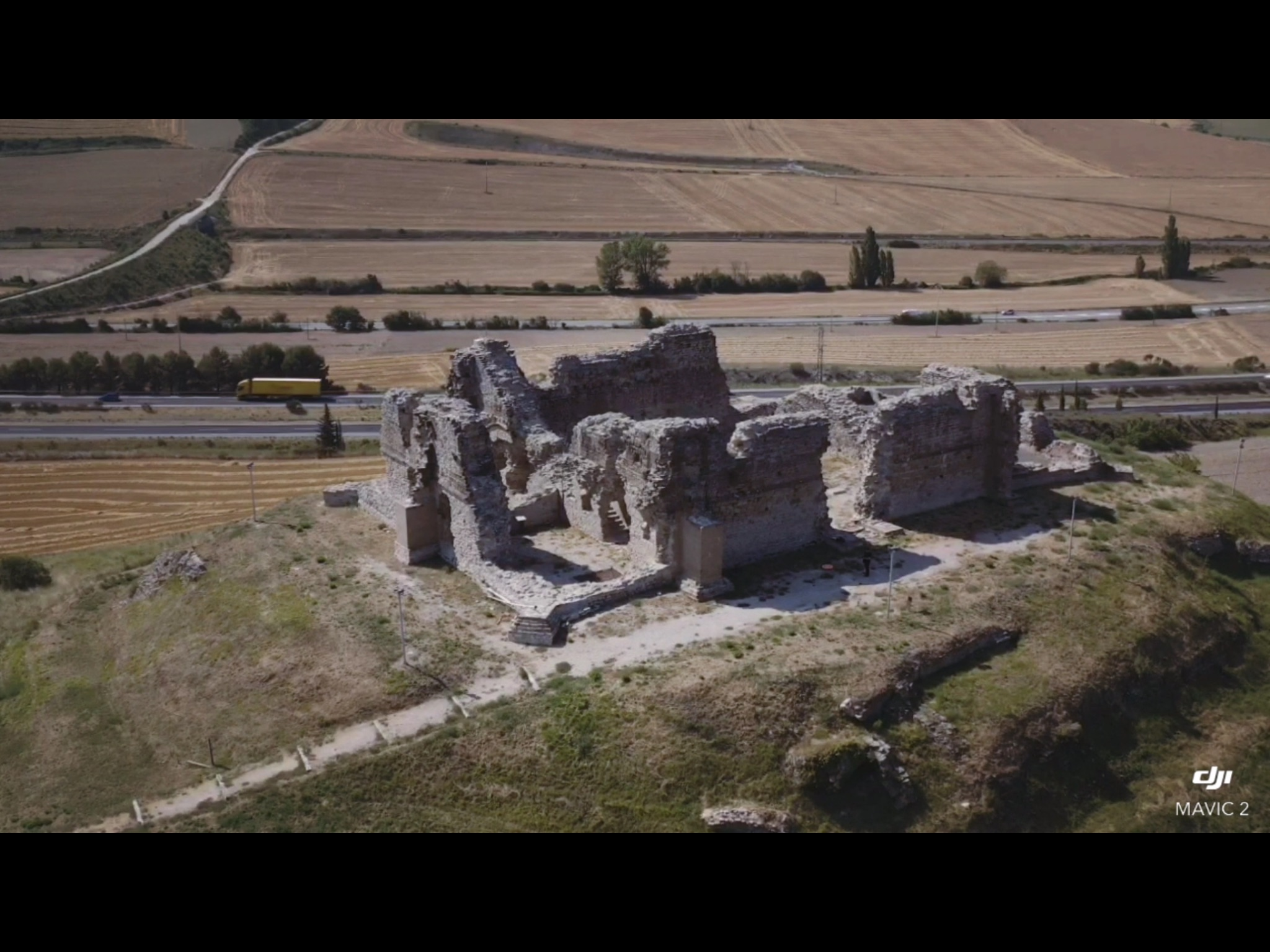 Tiebas castle